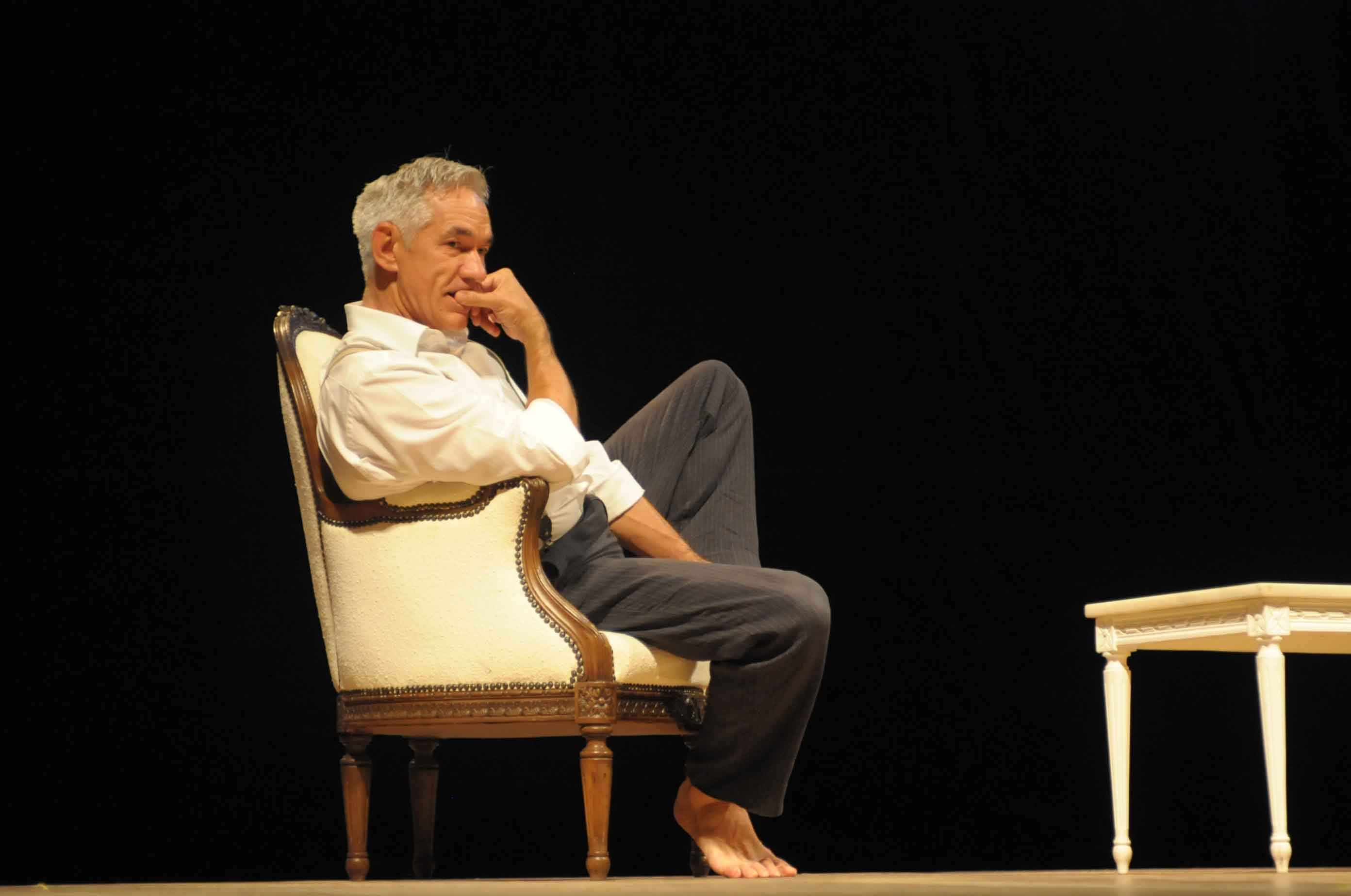 Recife, Teatro Santa Isabel